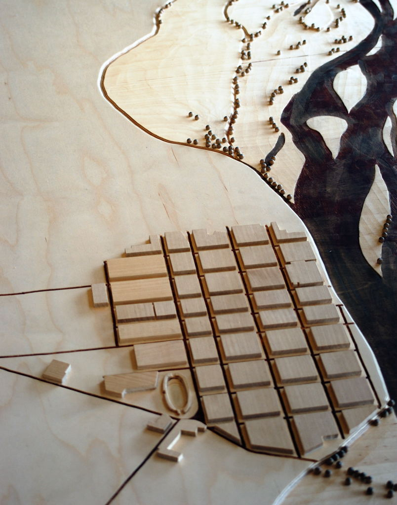 Model display of the excavated parts of Flavia Solva with the Mur river banks